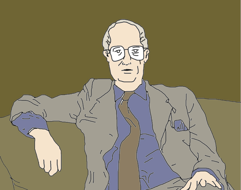 A caricature of the British philosopher, broadcaster, politician and author Bryan Magee